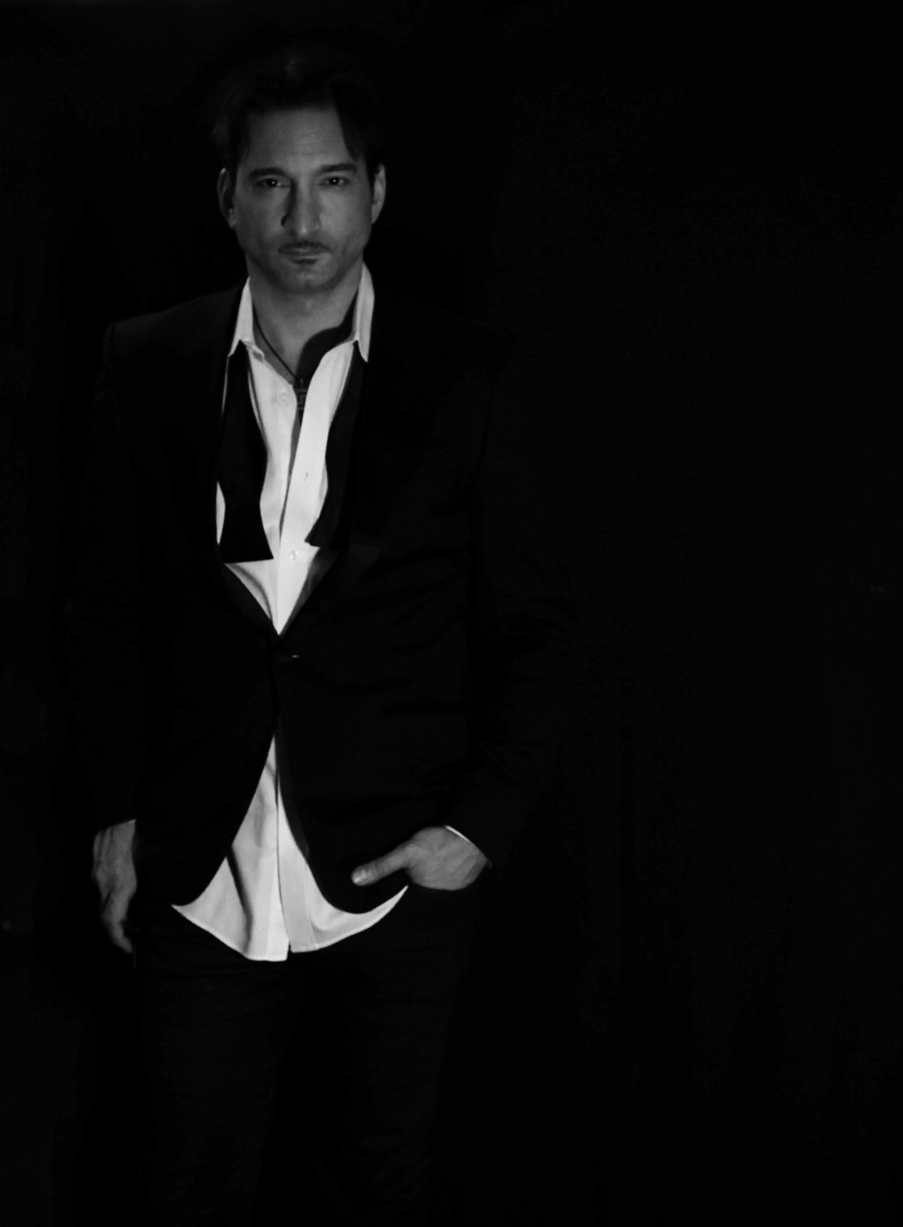 Johnny Bacolas - Jan 2016